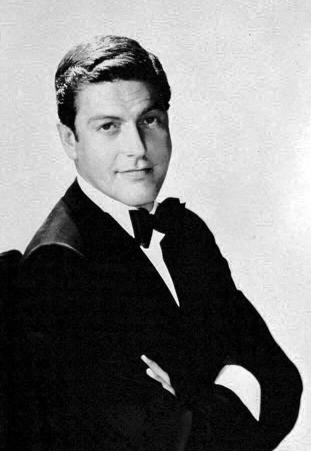 Promotional photo of Dick Van Dyke from The Dick Van Dyke Show.